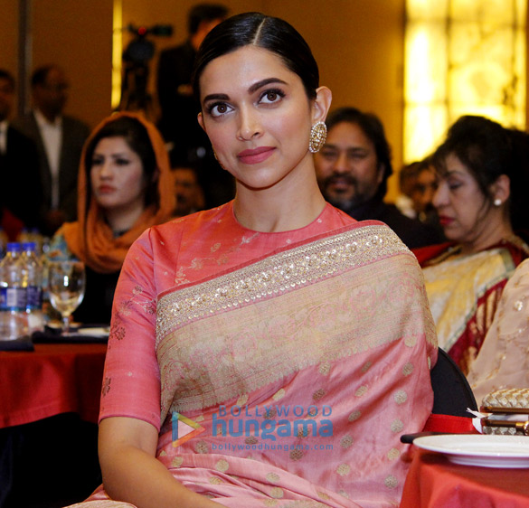 Deepika Padukone at Yonex Sunrise India Open 2018